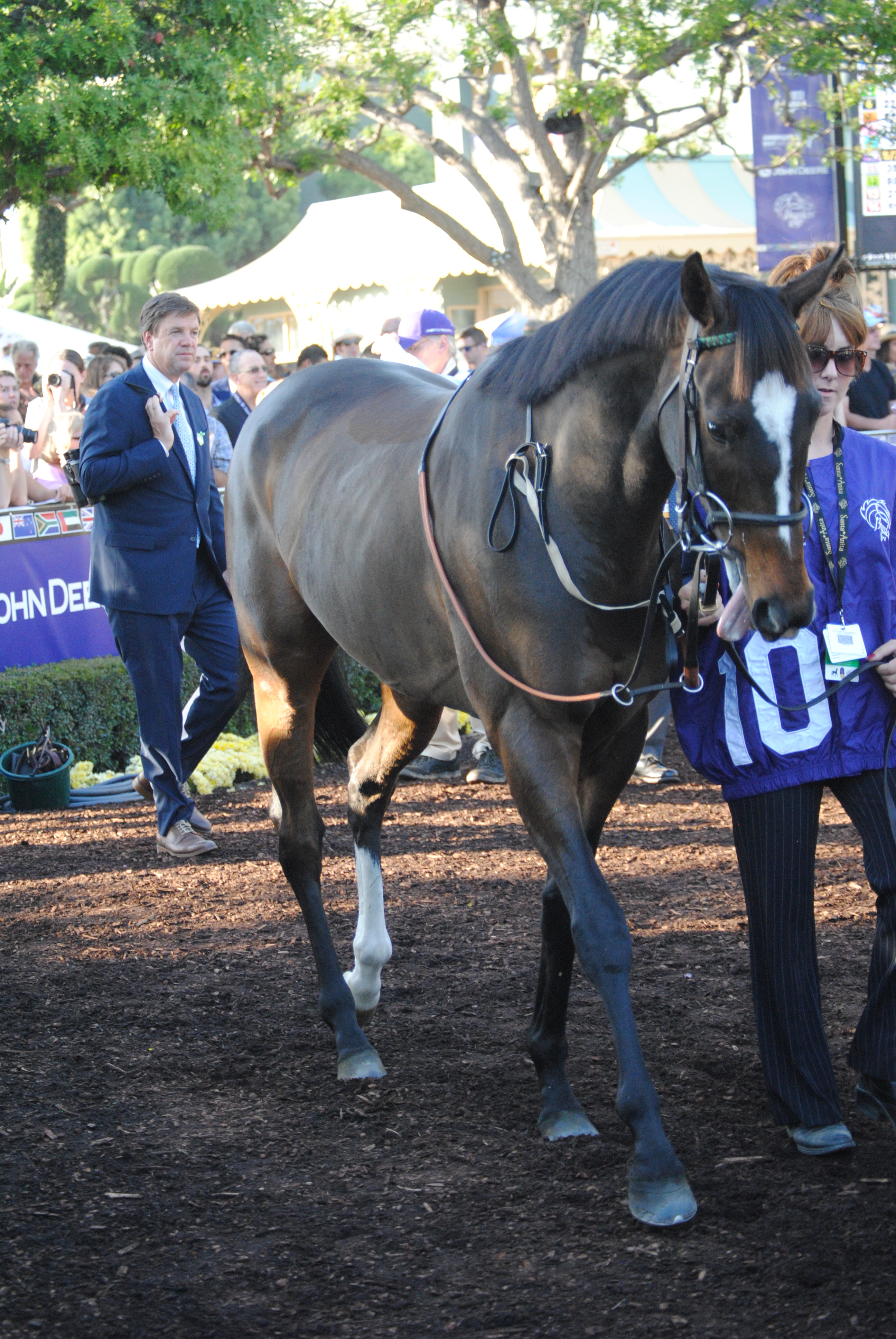 Limato before the 2016 Breeders' Cup Turf